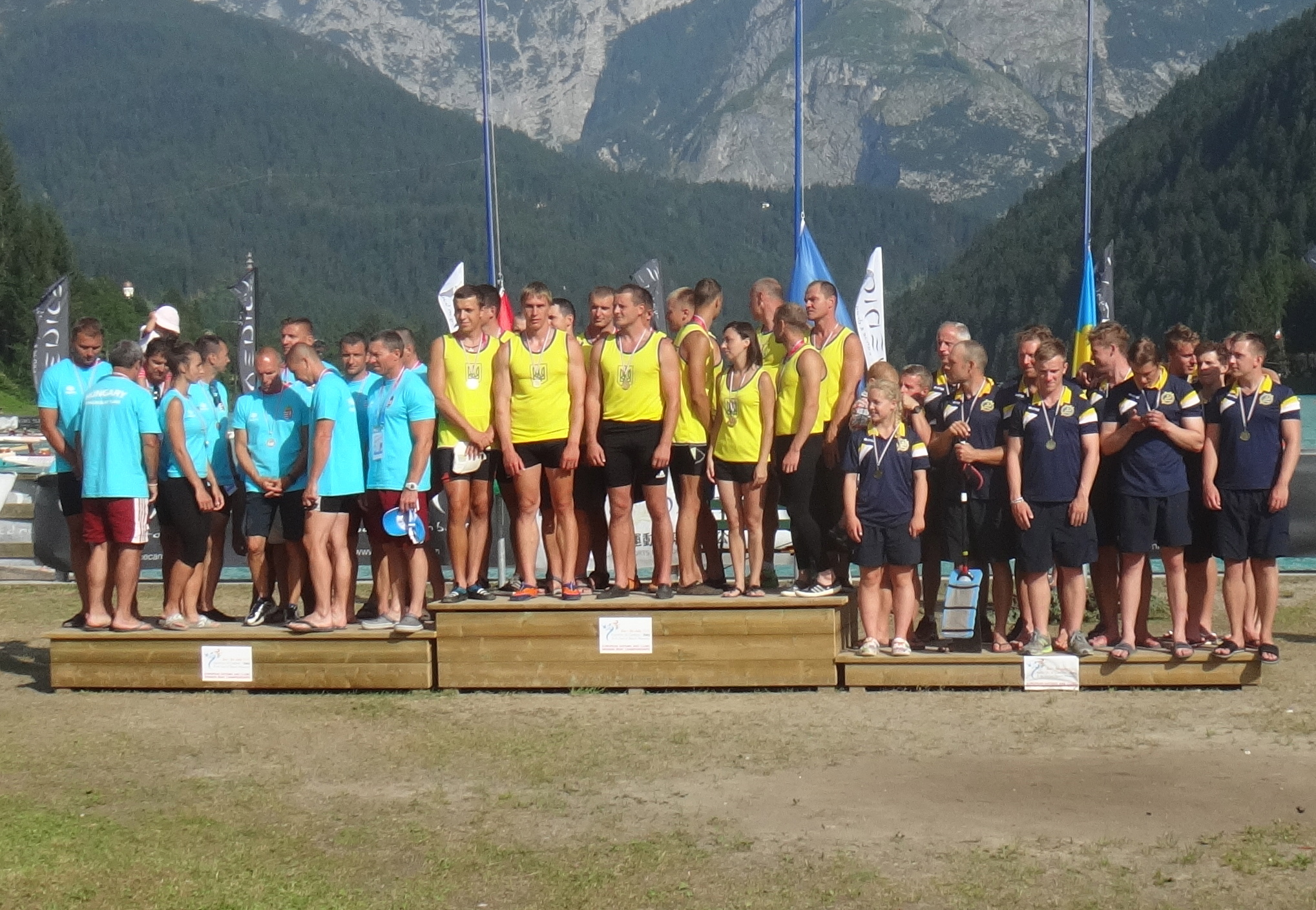 (ECA European Dragon Boat Racing Championships 2015 in Auronzo di Cadore, Italy. Medal ceremony for small boat men senior 200 meter. Gold medalist Ukraine, Silver medalist Hungary, Bronze medalist Sweden.)